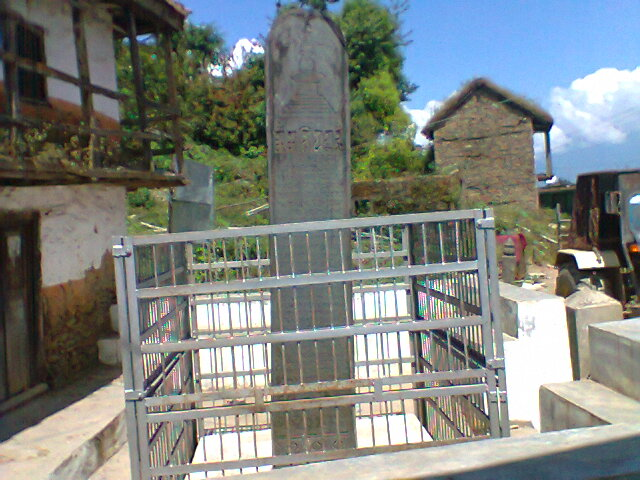 Prithivi Malla's Kirtistambha (Dullu)